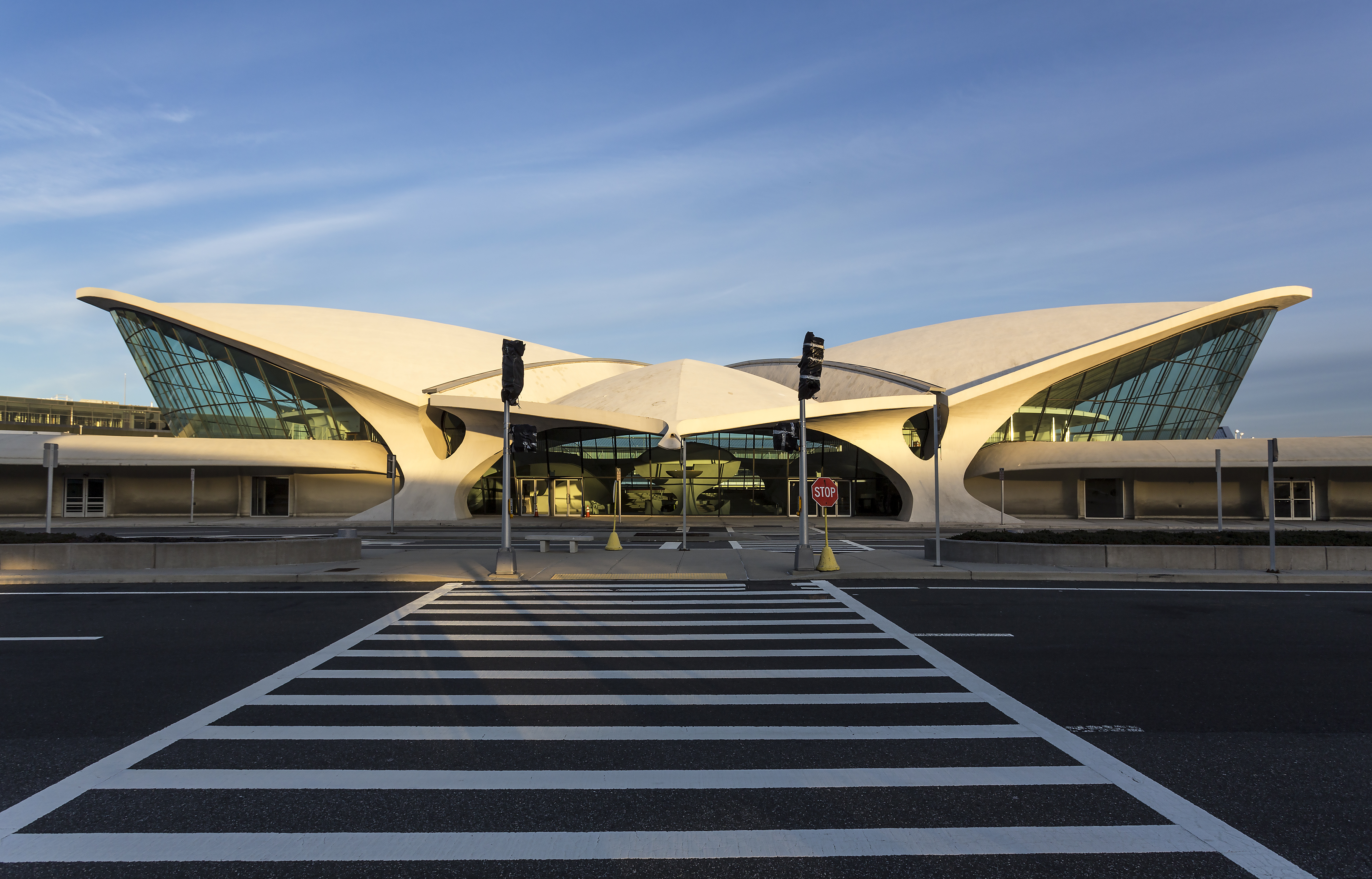 The TWA Flight Center at John F. Kennedy International Airport, New York, USA in early 2015